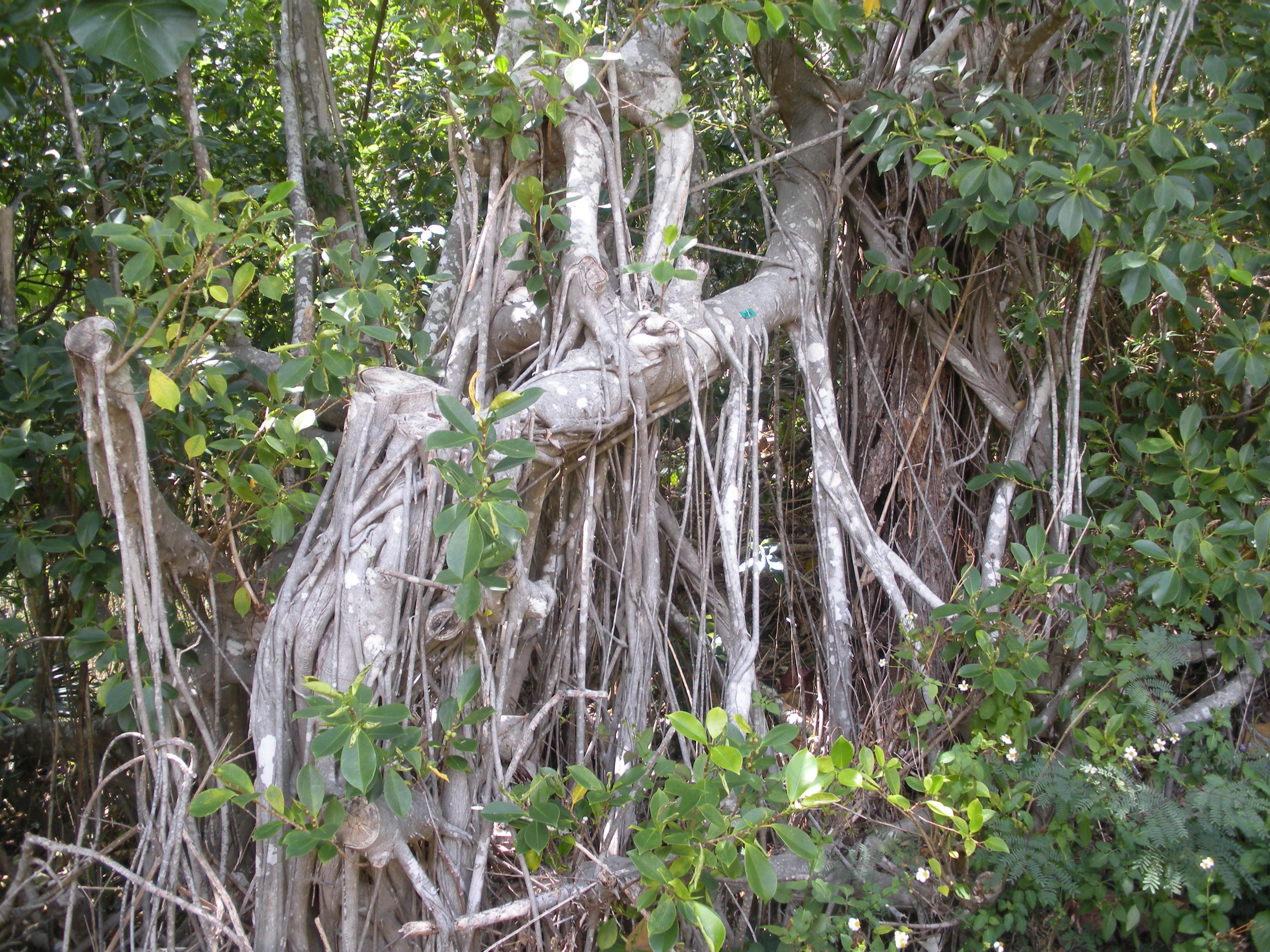 Ficus microcarpa in Bonin Islands Hahajima Island